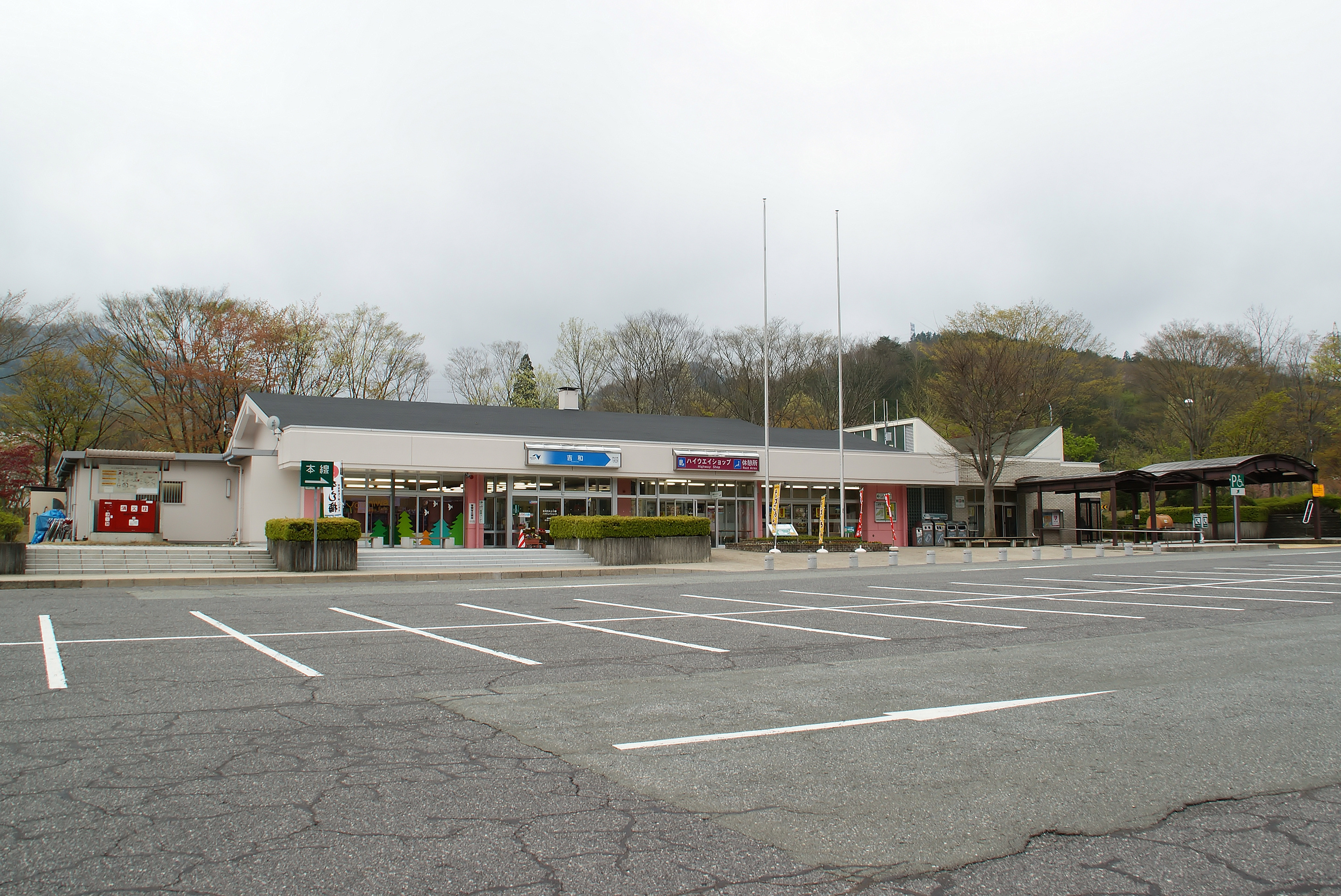 Yoshiwa Service Area on the Chugoku Expressway in Hatsukaichi City, Hiroshima Prefecture, Japan